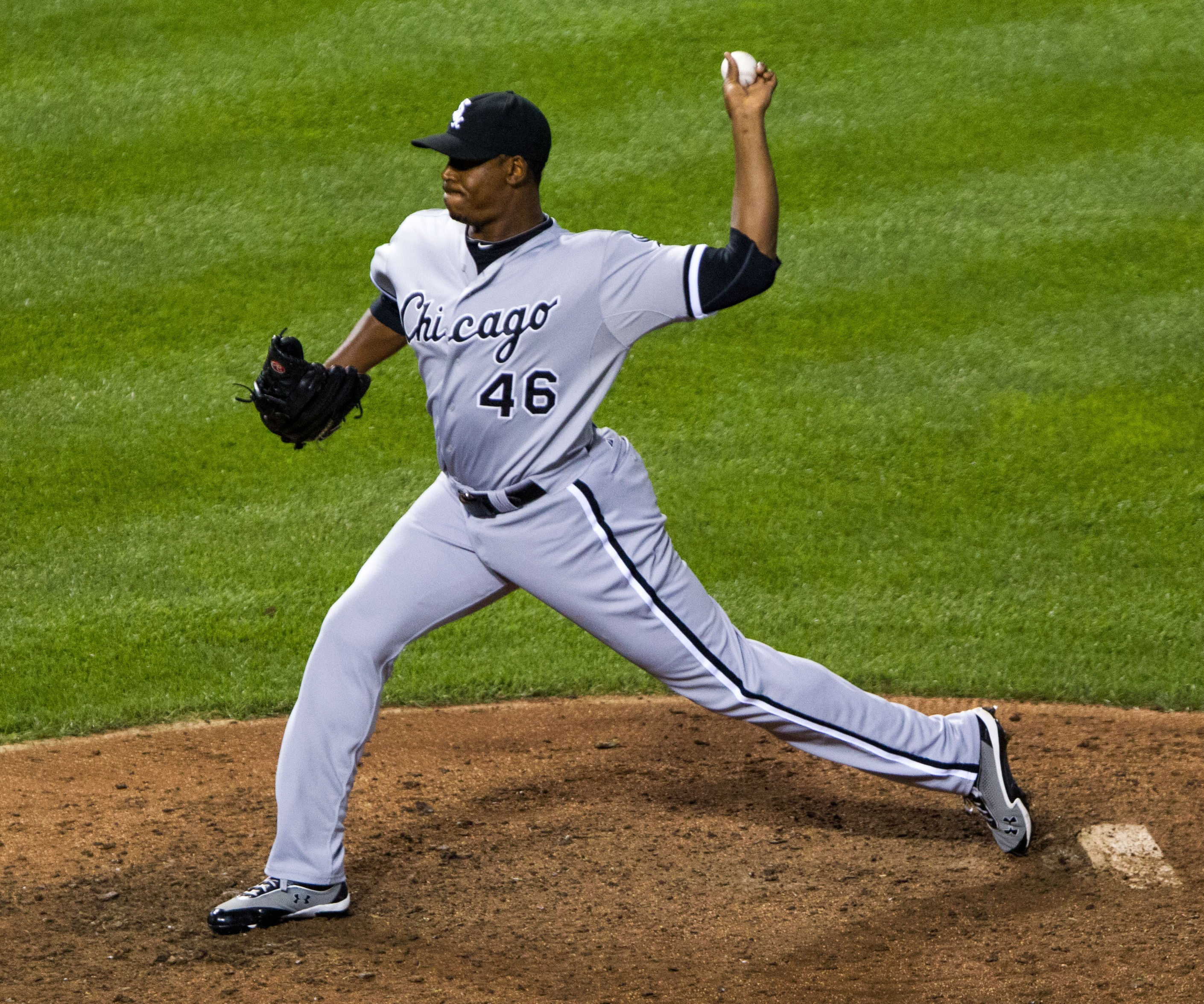 Chicago White Sox pitcher Donnie Veal – Chicago White Sox at Baltimore Orioles August 29, 2012